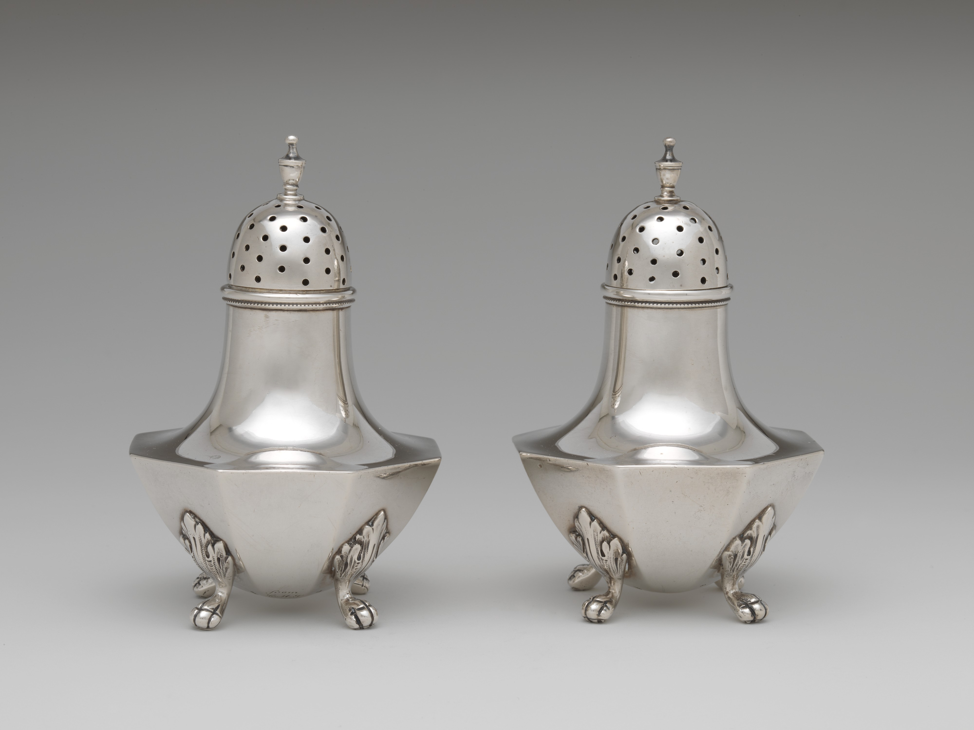 American; Caster; Silver